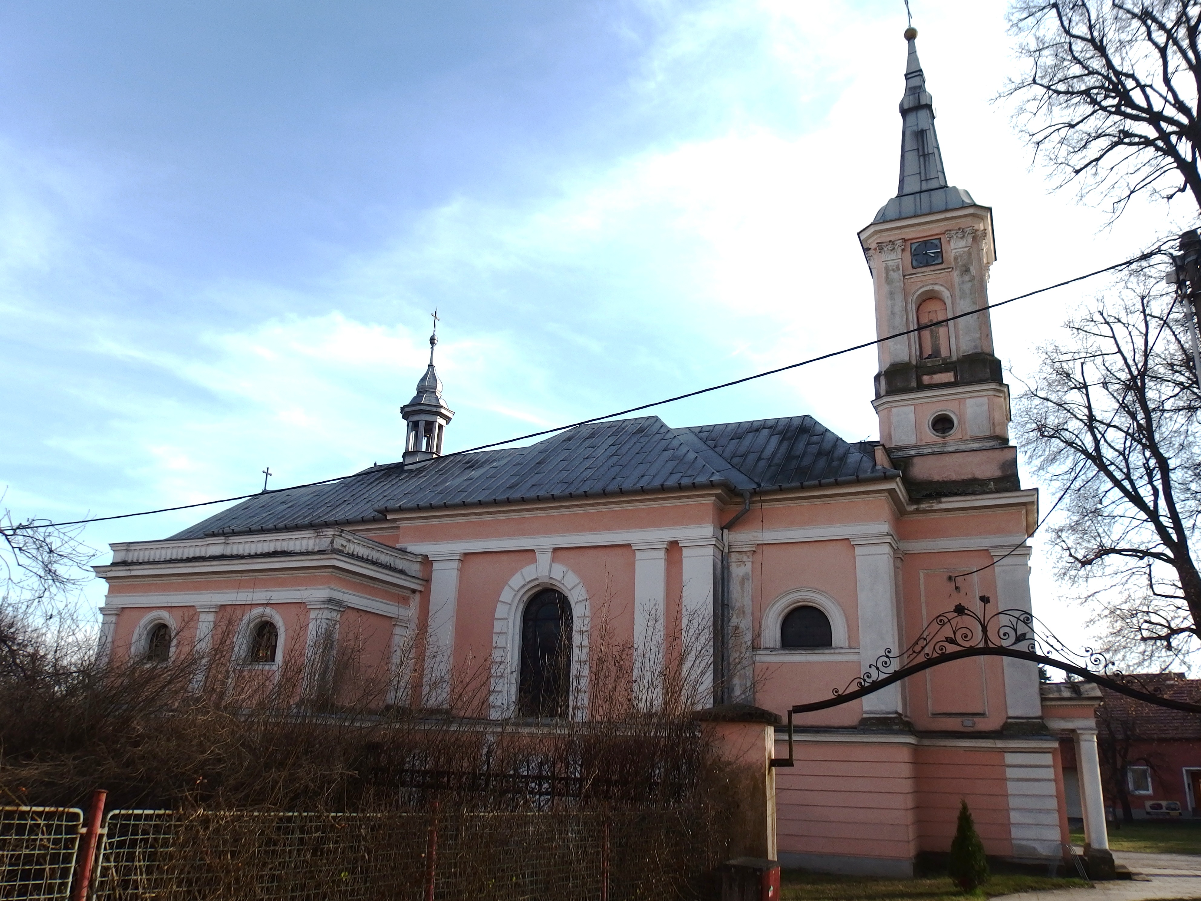 Prostějov, Czech Republic, part Žešov.